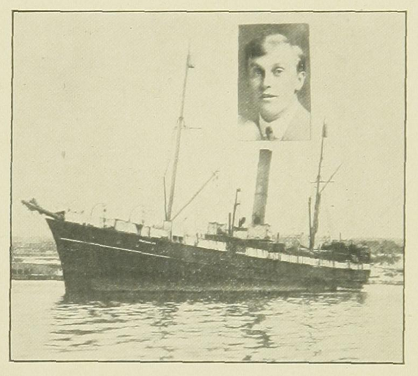 SS Newfoundland with Capt. W. Kean, captain at time of 1914 sealing disaster